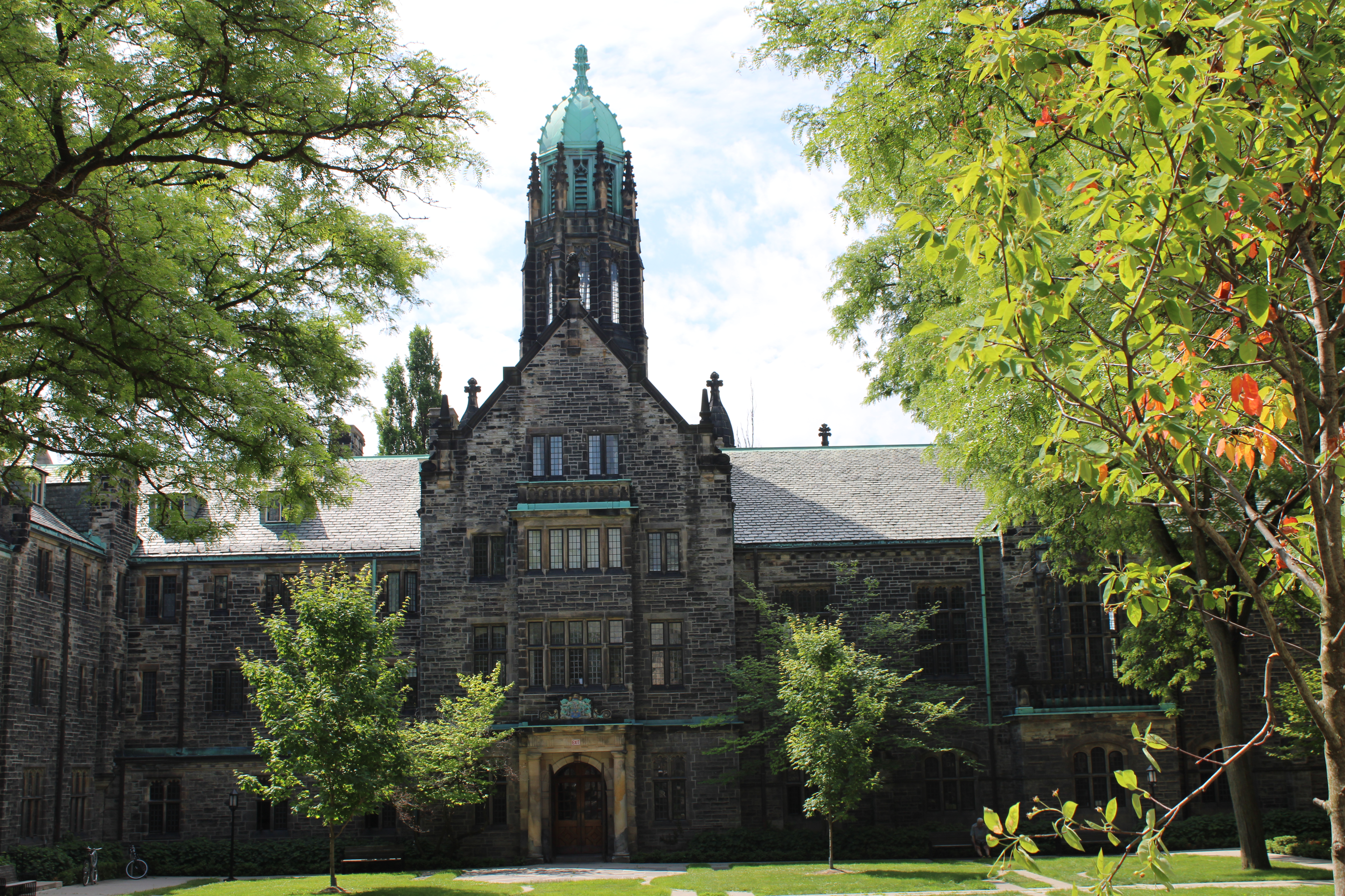 The central tower of Trinity College, Toronto. Looking south, taken from the quad